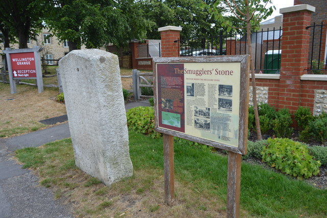 The Smuggler's Stone was erected in 1749 in the Broyle (North of Chichester)to record the execution of six smugglers and the burial place of another. They were part of notorious group of smugglers known as the Hawkshurst Gang that terrorised the South Coast of England in the 1740s. The inscription reads "Near this place was buried the body of William Jackson, a prescribed smuggler, who upon a special commission of oyer and terminer held at Chichester on the 16th day of January 1748-9 was, with William Carter, attained for the murder of William Galley, a custom house officer and who likewise was together with Benjamin Tapner, John Cobby, John Hammond, Richard Mills the elder and Richard Mills the younger, his son, attained for the murder of Daniel Chater. But dying in a few hours after sentence of death was pronounced upon him he thereby escaped the punishment which the heinousness of his complicated crimes deserved and which was the next day most justly inflicted upon his accomplices. As a memorial to posterity and a warning to this and succeeding generations this stone is erected AD 1749."